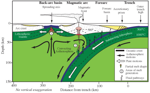 Cross-section of a subduction zone and back-arc basin. Made by zyzzy2 the formula to solve a subduction zone current is s=l+a(9)(6)